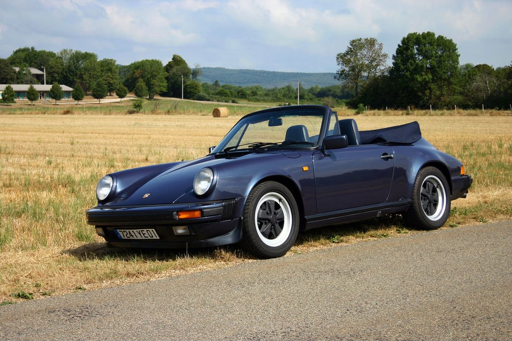 Prussian blue 1986 911 Carrera Cabriolet.